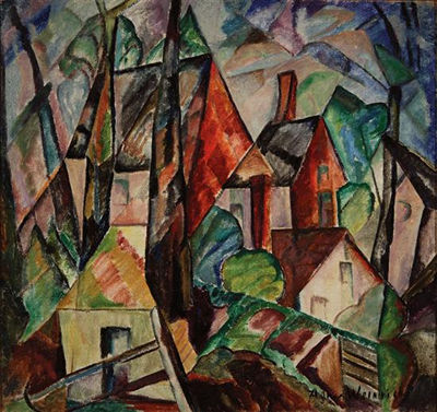 Red Houses by Agnes Weinrich, circa 1921, oil on canvas on board, 24.25 x 25.5 inches; exhibited "Red Houses" at Fifth Annual Exhibition of the Society of Independent Artists.